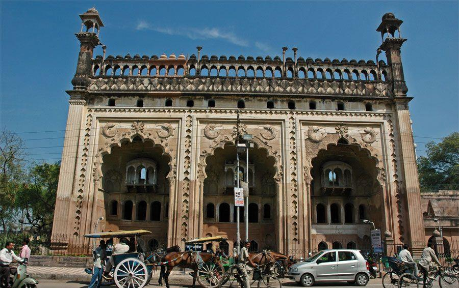 Photograph taken by Sayed Mohammad Faiz Haider